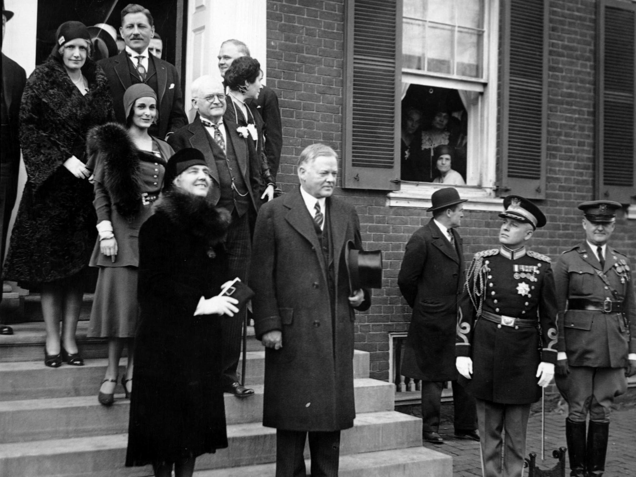 Mr. and Mrs. Hoover on their way to the inaugural ceremonies, March 4, 1929.